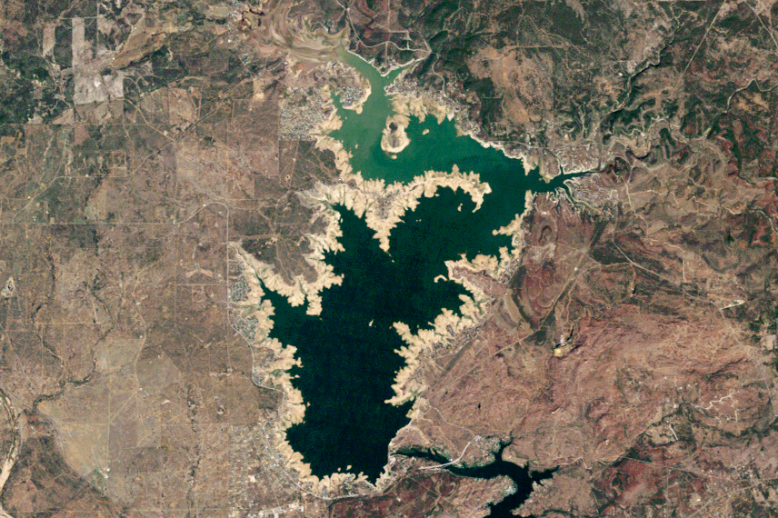 Landsat 5 satellite image of Lake Buchanan in Texas after a prolonged period of drought.